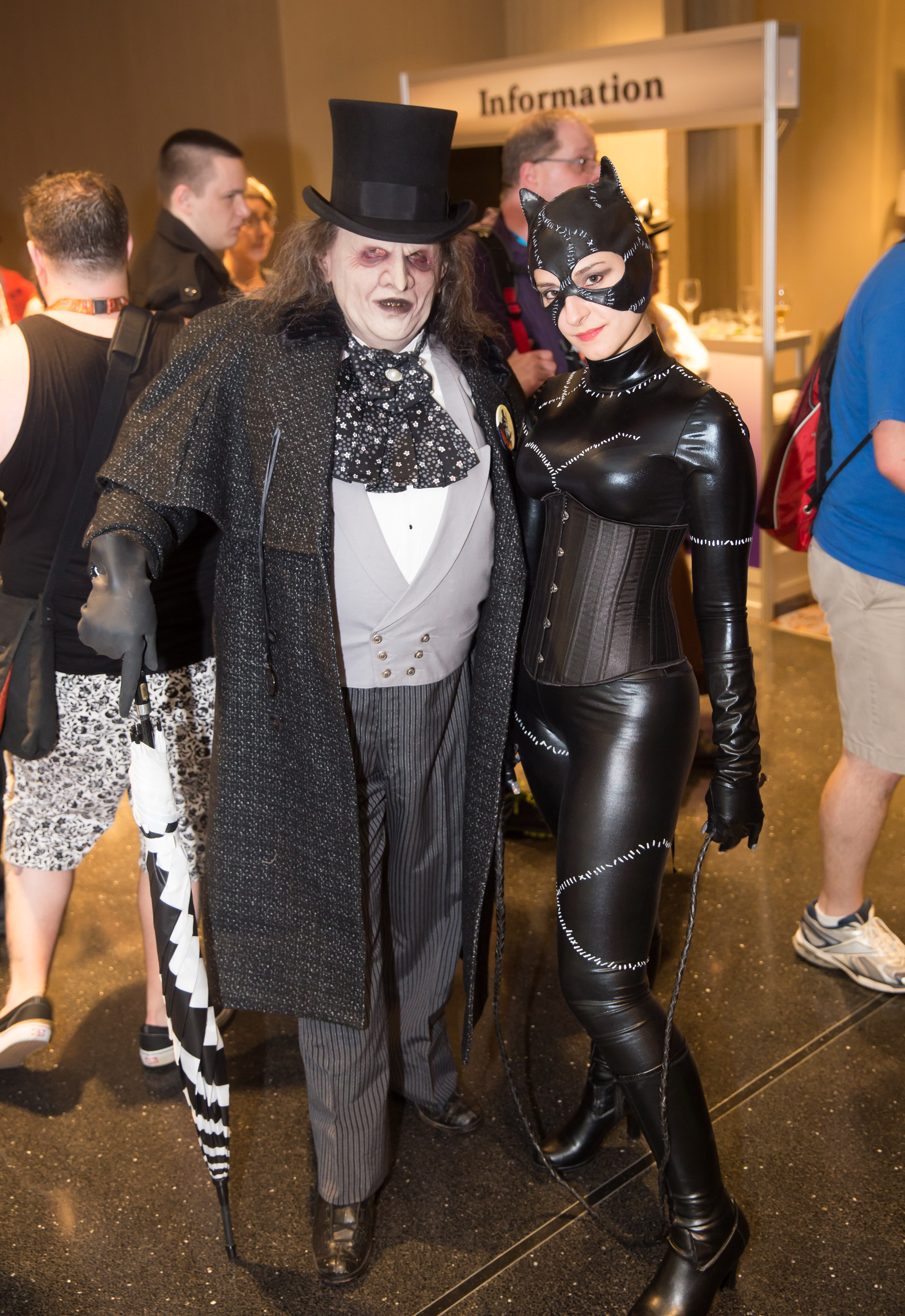 Oswald Cobblepot ans Selina Kyle Cosplay at Dragon*Con 2015.